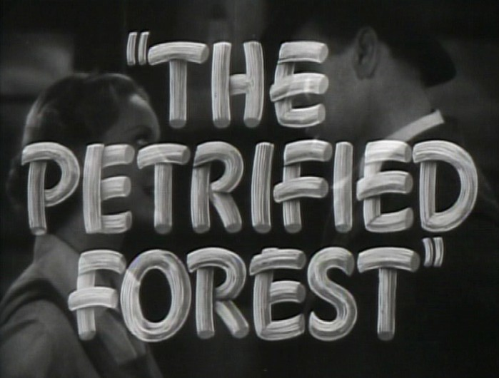 Cropped screenshot of the main title from the trailer for the film The Petrified Forest.